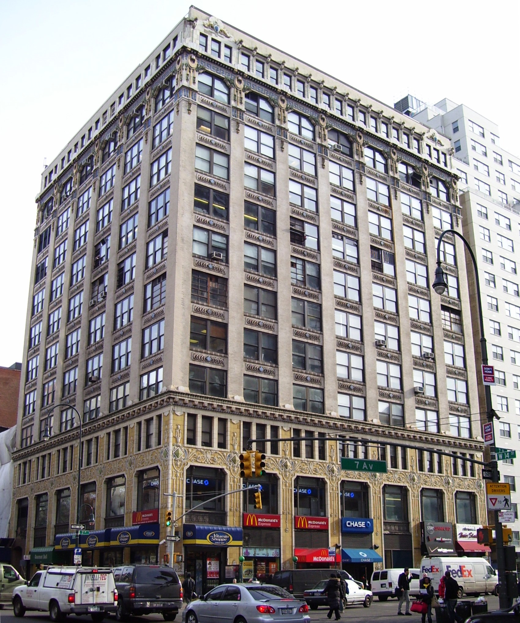 154-160 West 14th Street, on the corner of Seventh Avenue in Manhattan, New York City, was designed by Herman Lee Meader in a style hinting of Art Nouveau and anticipating Art Deco. The loft building dates from 1913. (Source: AIA Guide to NYC (4th ed.))